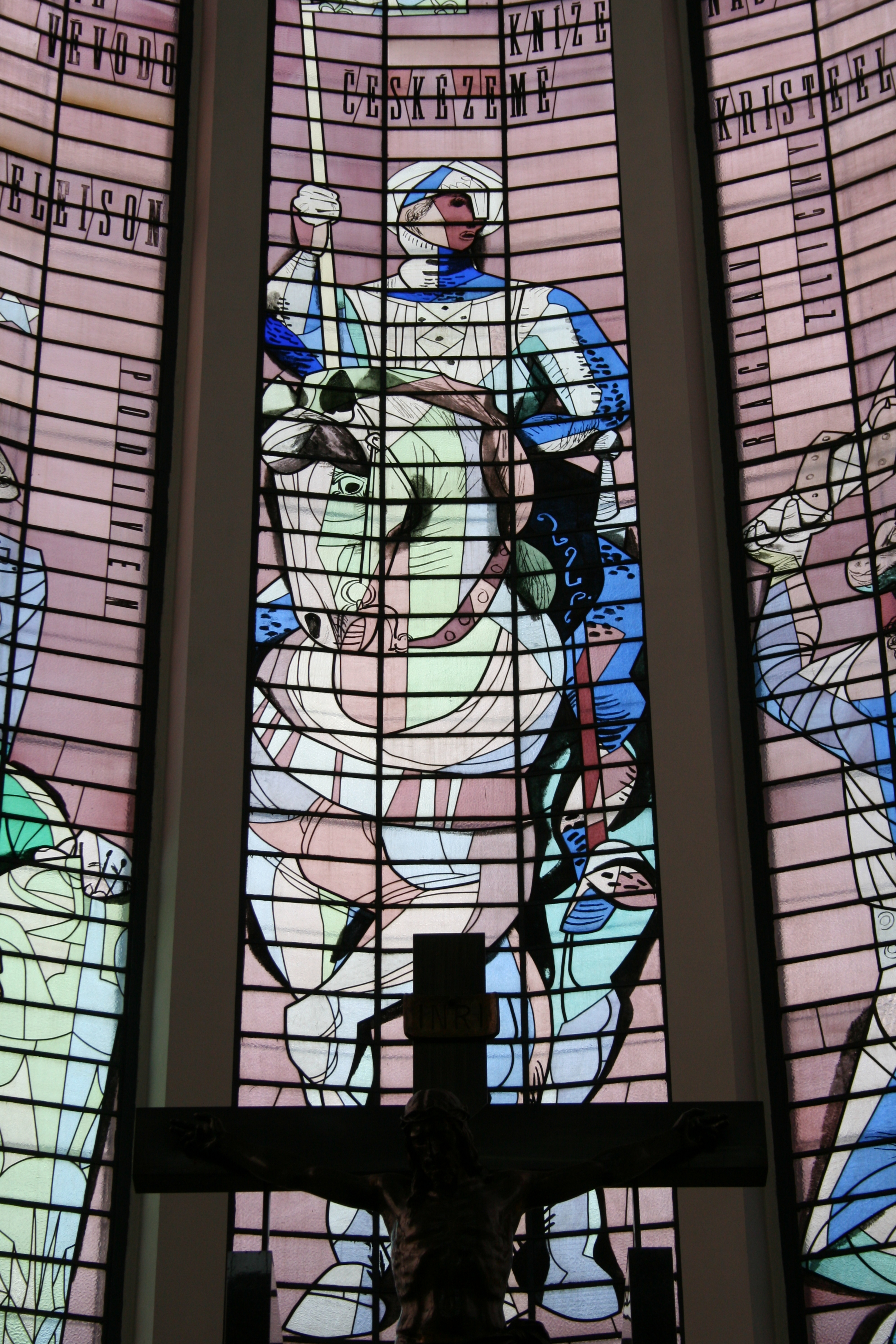 Church of Saint Wenceslaus (Vršovice)